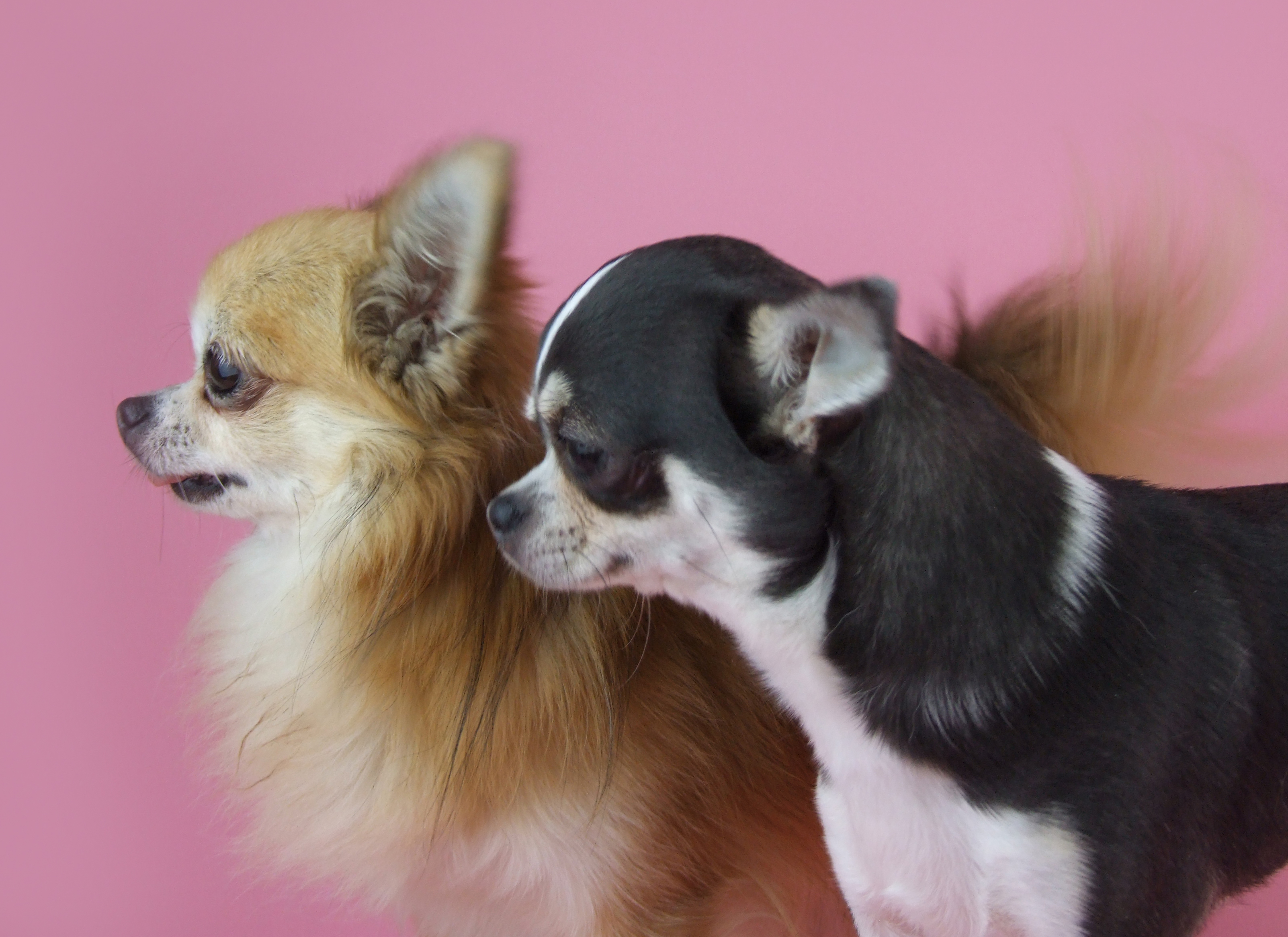 Chihuahua